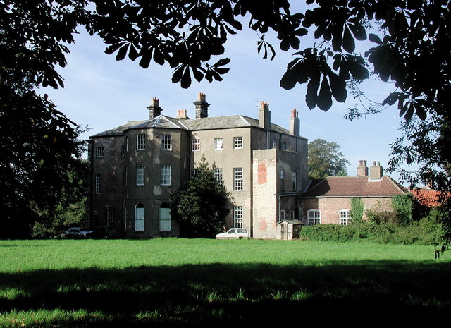 Haworth Hall on the River Hull Haworth Hall (formerly Hull Bank House), previously owned and possibly built by wealthy local landowners the Burton family in the early part of the 18th Century.